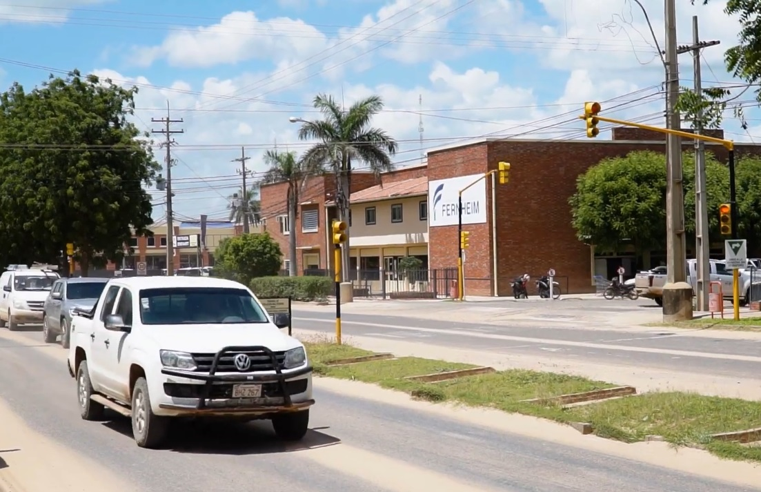 Trebol Avenue, main street in Filadelfia (Paraguay)